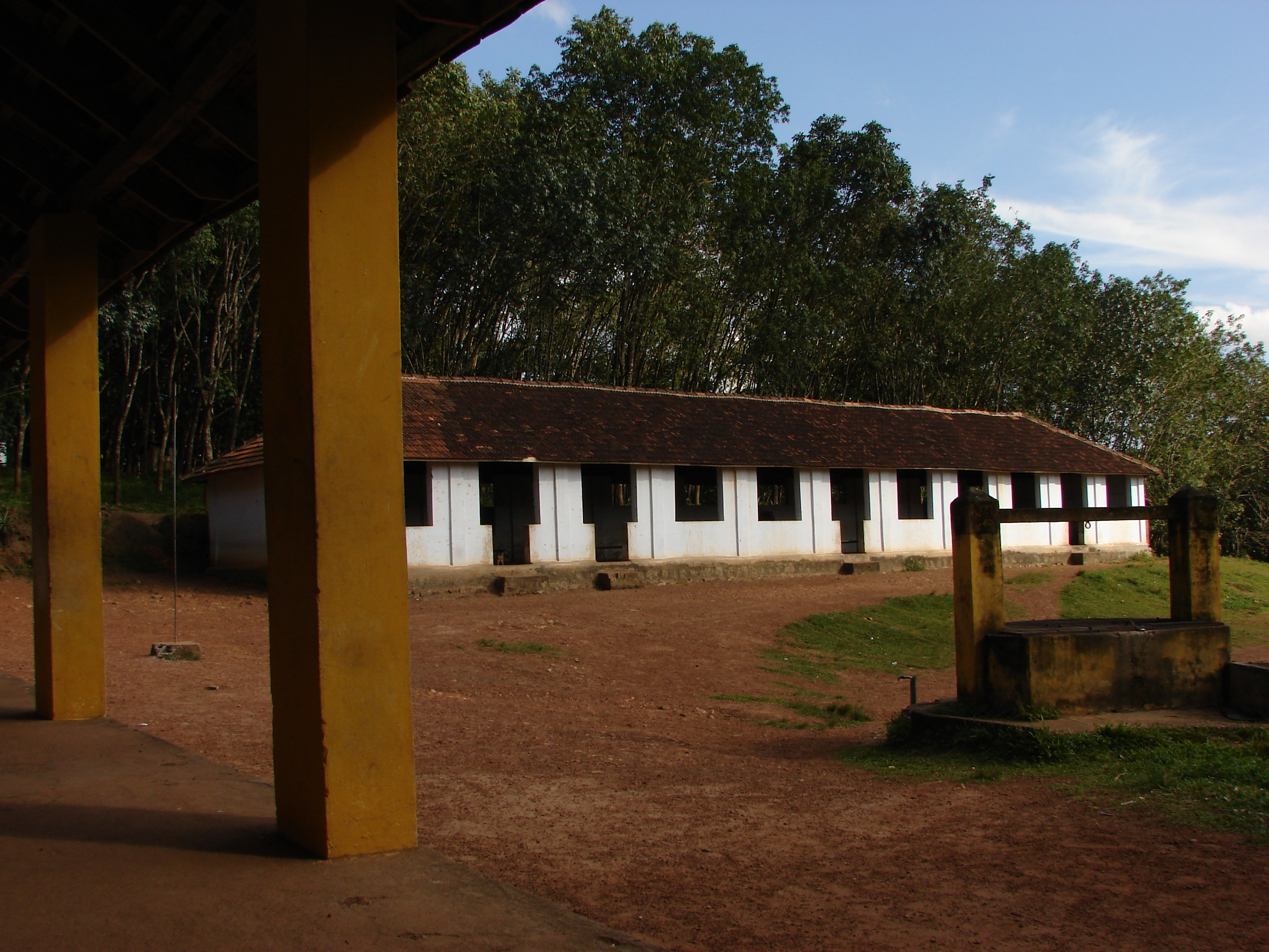 Another view of Second Building of Jawahar LPS kurakkodu